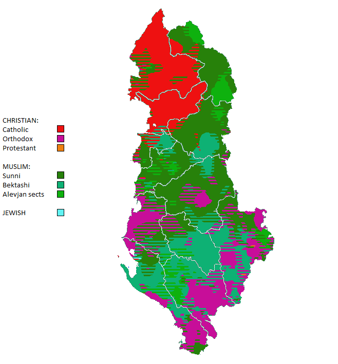 Approximate distribution of different faiths in Albania circa 1900, based on same sources as the earlier religious and linguistifc map (available here :/User:Calthinus/AlbaniaTraditionalCommunitiesCitations ).